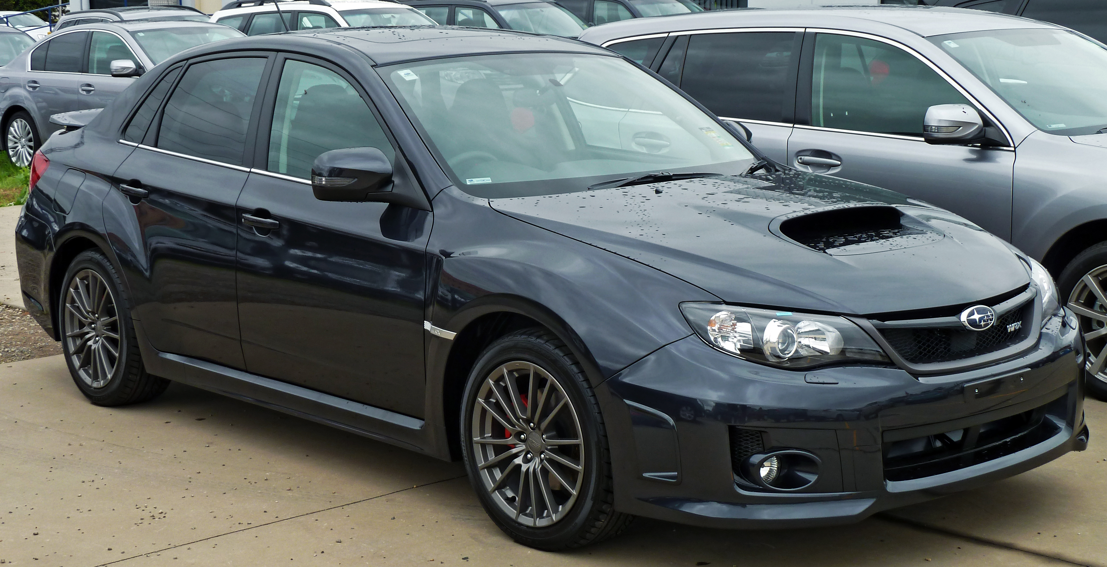 2010 Subaru Impreza (GVE MY11) WRX sedan. Photographed at Suttons Subaru, Chullora, New South Wales, Australia.